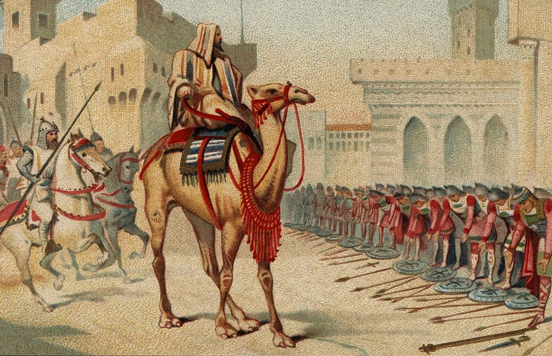 Great conquerors - Omar, the second caliph, taking possession of Jerusalem in year 638 AD (CE)